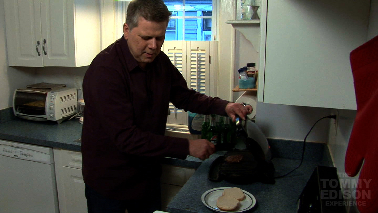 Tommy Edison, the film critic who is also blind, demonstrating how someone who is blind can cook alone.